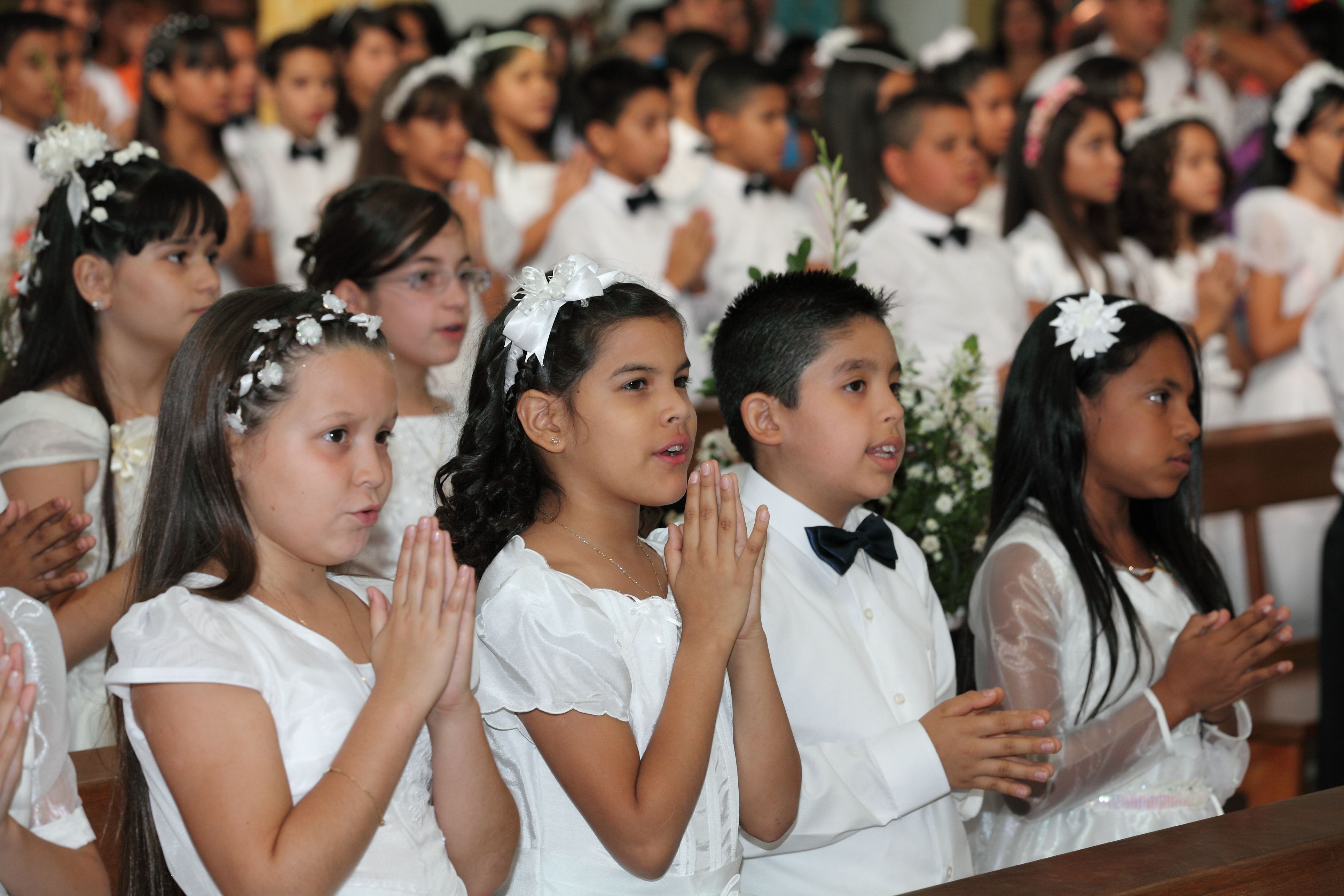 Catholic tradition